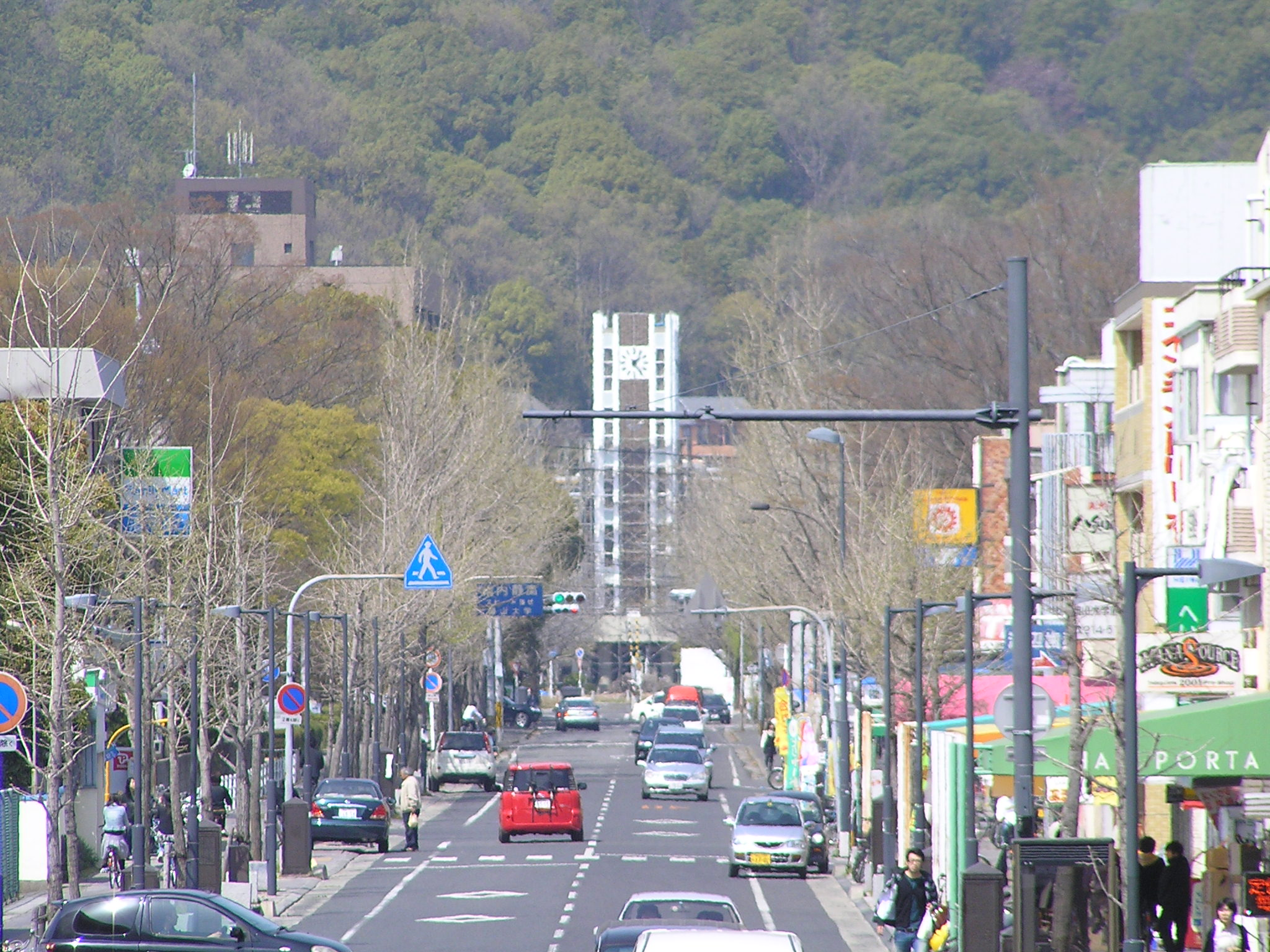 The street in front of Okayama University.